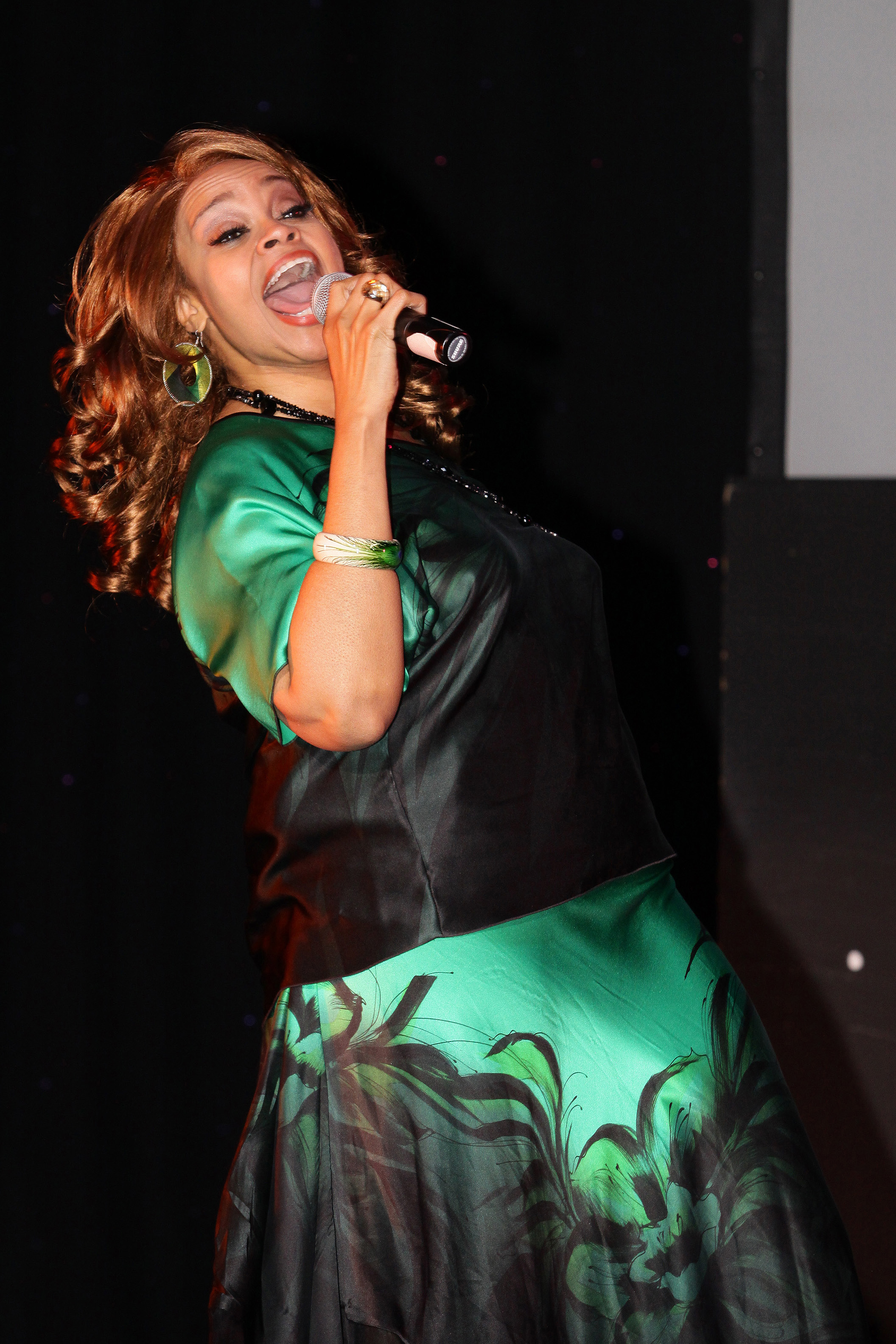 Karen Clark-Sheard (from the Clarck Sisters) during "The Experience with Karen Clark-Sheard" at the DuSable Museum in Chicago.(photo by Raymond Boyd)